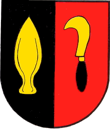 Coat of arms of Nordweil (Kenzingen)